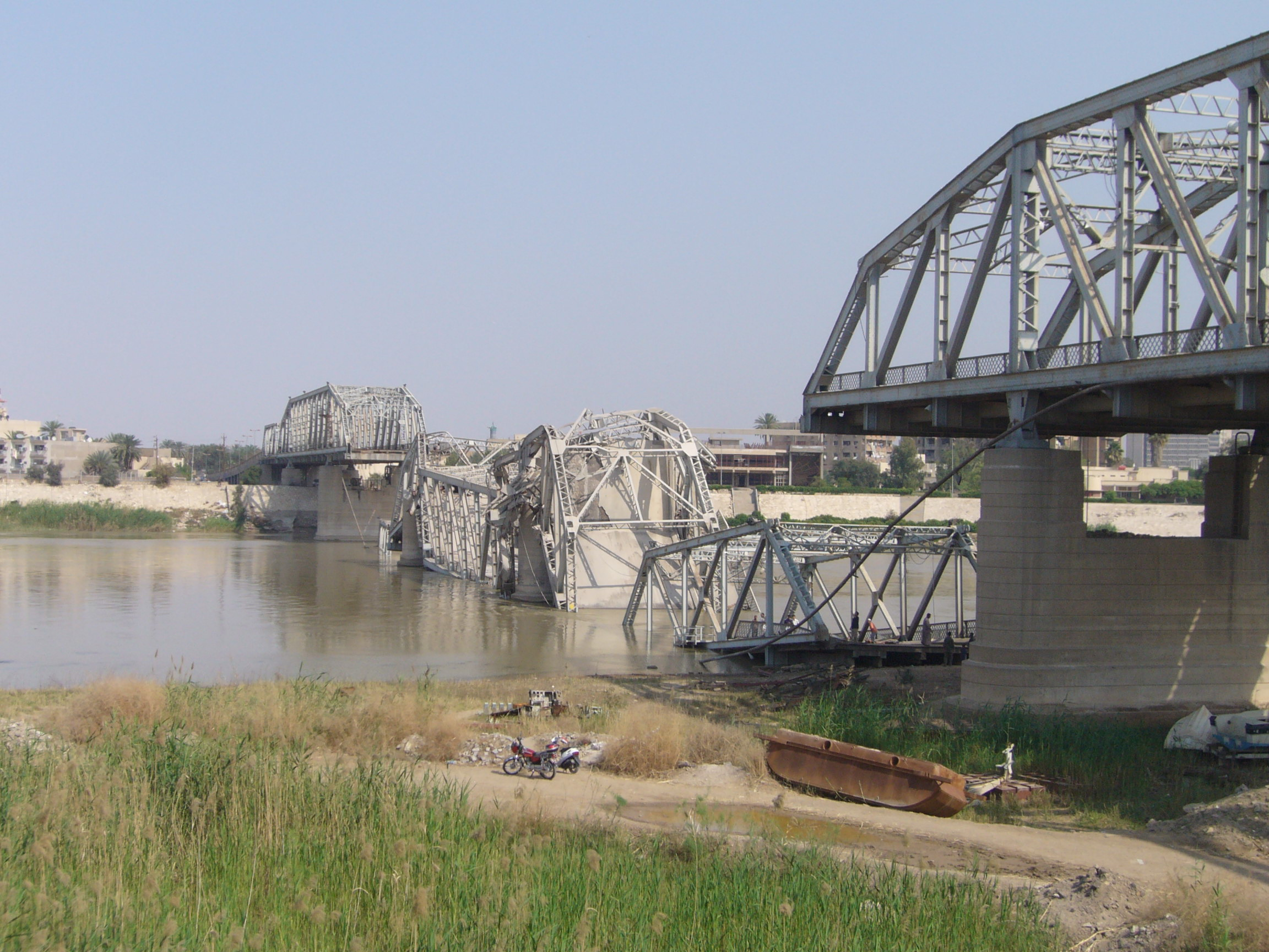 This brifge has beed destroyed as a result of an explosion caused by a car bomb